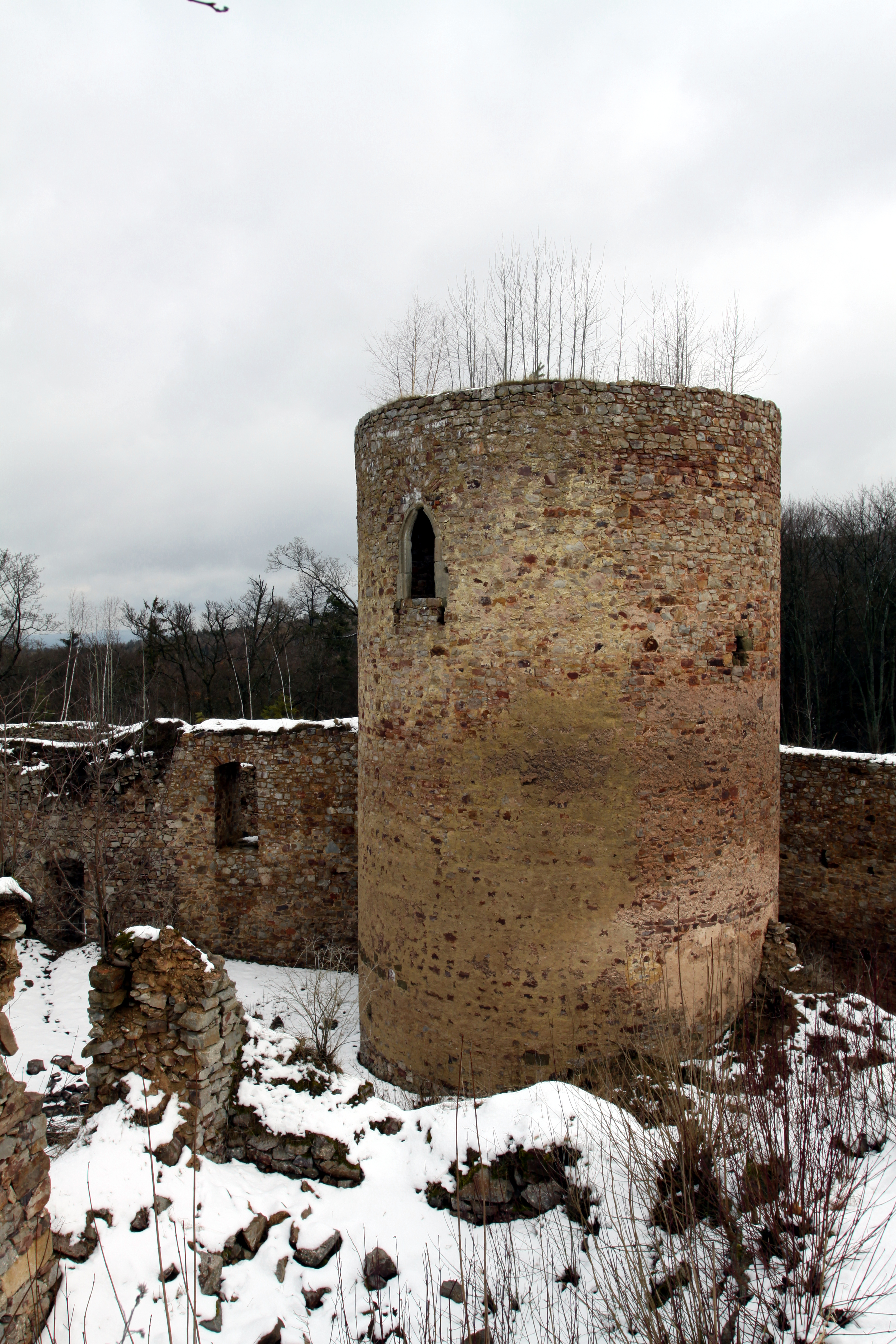 Ruins of Valdek Castle in CHKO Brdy, Czech Republic